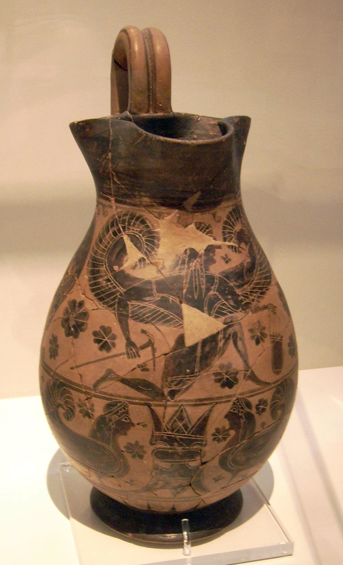 Early archaic black-figure attic Olpe by the Cerameicus Painter; upper zone winged youth (Aristaios?) between lions; lower zone sirens, panthers, lotus flowers; about 600 BC.; National Archeological Museum Athens (16285)